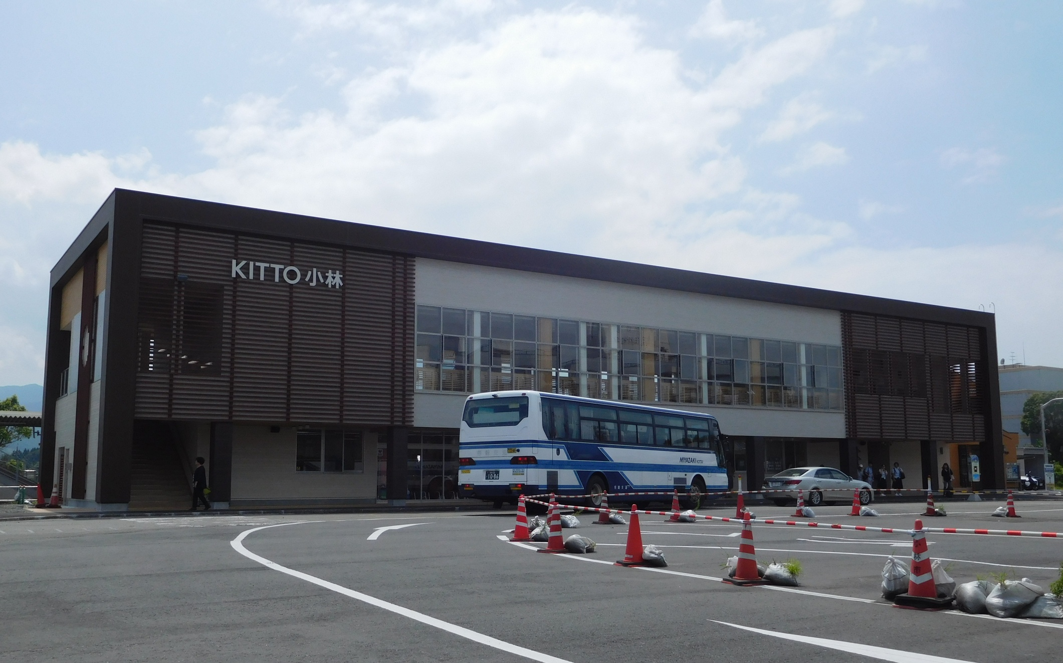 The Kitto Kobayashi bus station in Kobayashi, Miyazaki Prefecture, Japan